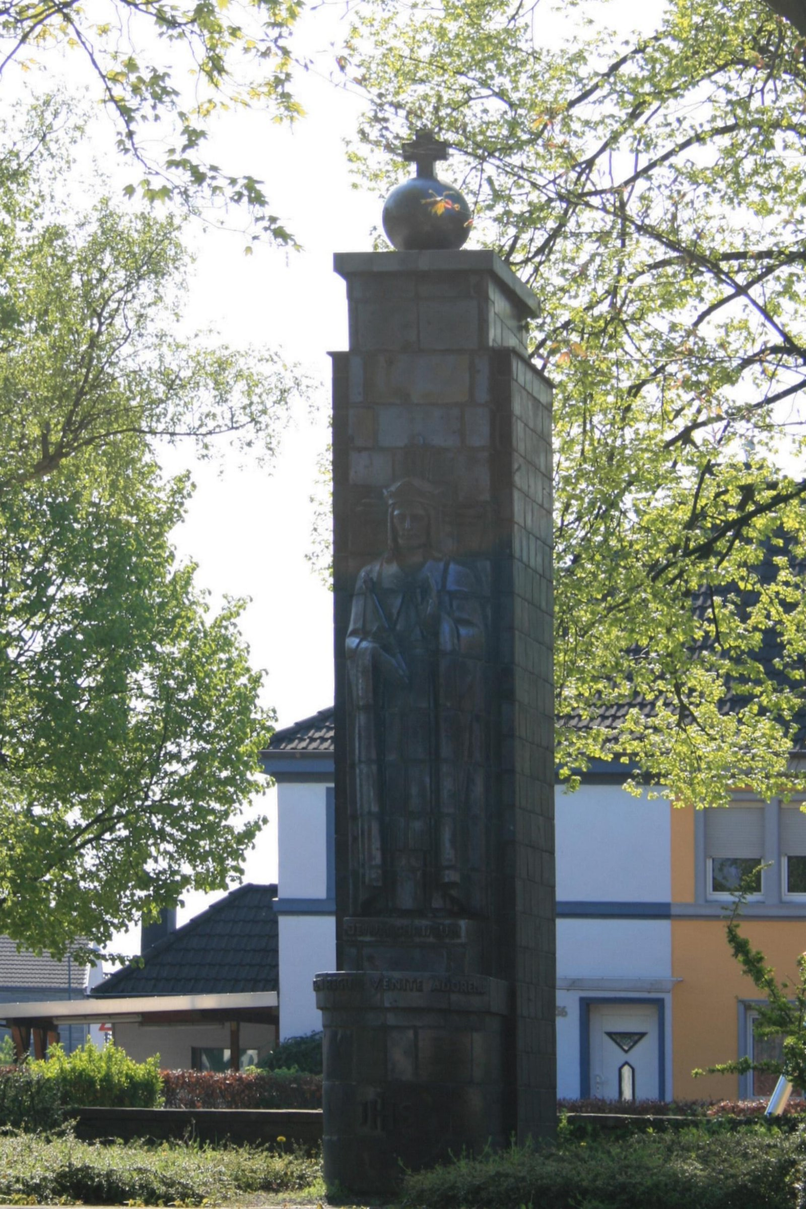 Cultural heritage monument No. 9/003 in Düren